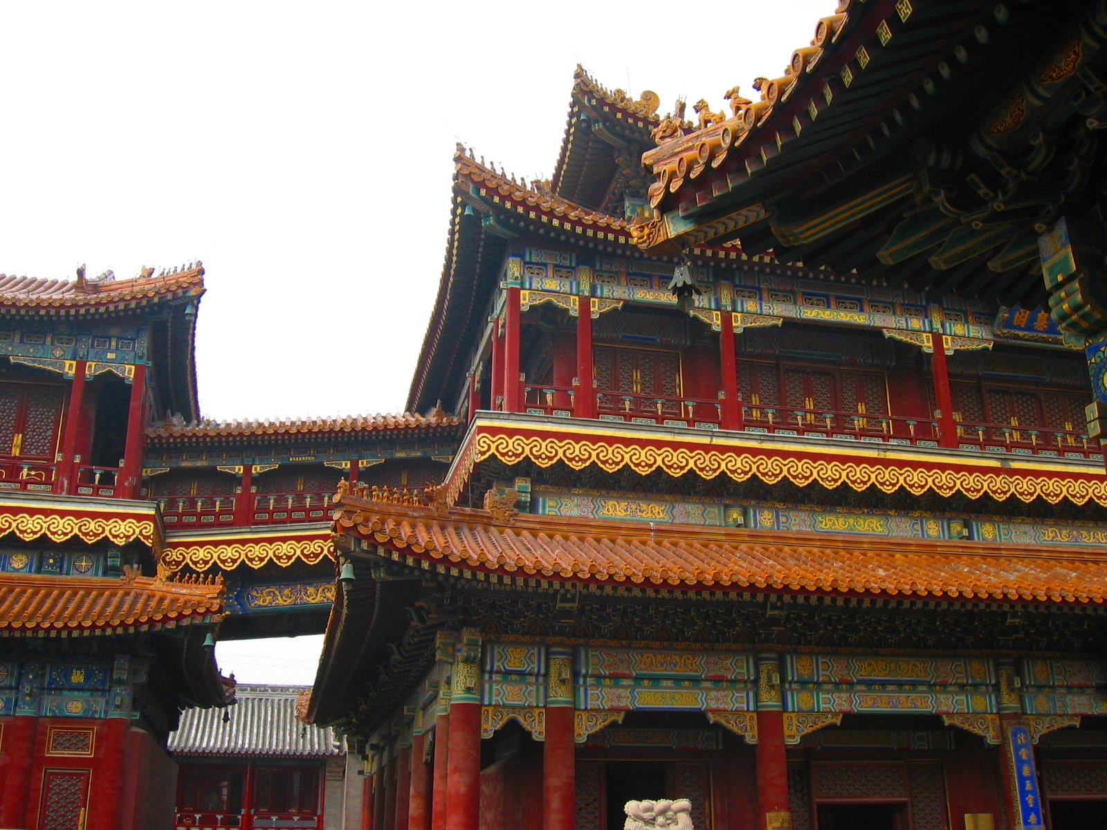 Photograph of the Yonghe Temple in Beijing, China, taken on July 20th, 2004 by Rolf Müller.